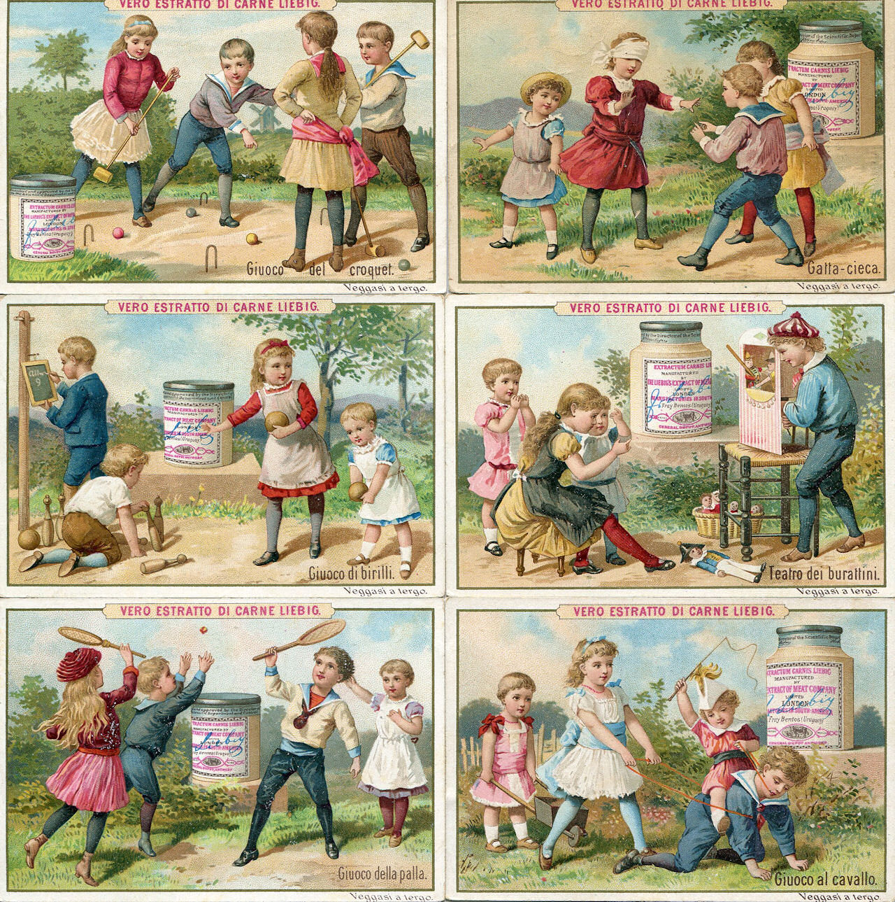 Liebig: 344 front italian series (Sanguinetti's Catalogue